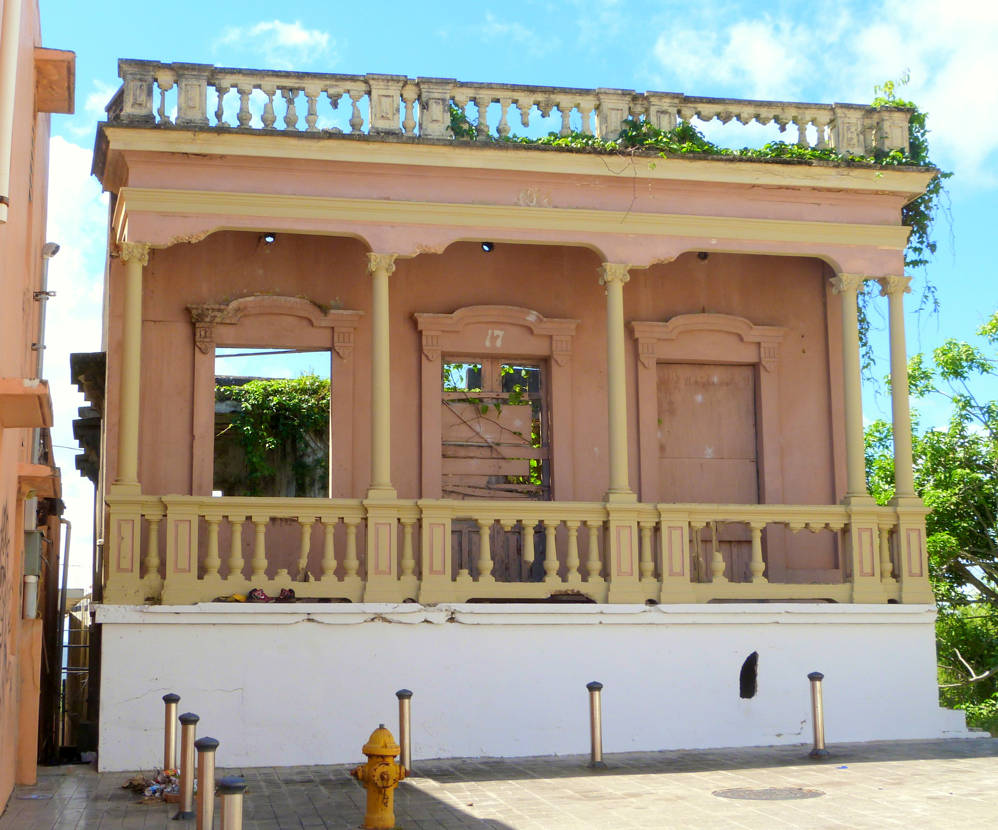 The historic Casa de la Diosa Mita (built 1914), located at Calle Fernández Juncos #251 in Arecibo, Puerto Rico, is listed on the U.S. National Register of Historic Places.